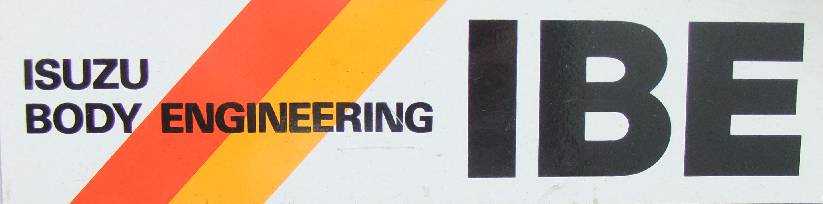 ISUZU BODY CORPORATION Sticker